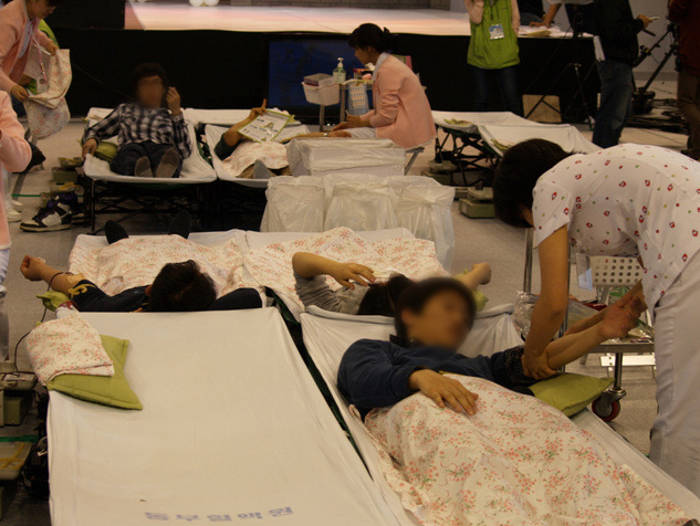 70day miracle blood donation event in Hanyang University